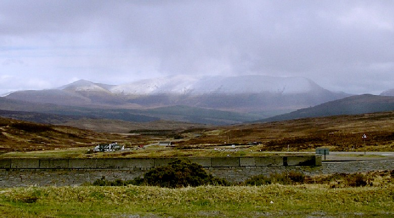 Ben Wyvis, seen from near Loch Glascarnoch by the A835 road. Taken by User:Grinner on 4th April 2005.